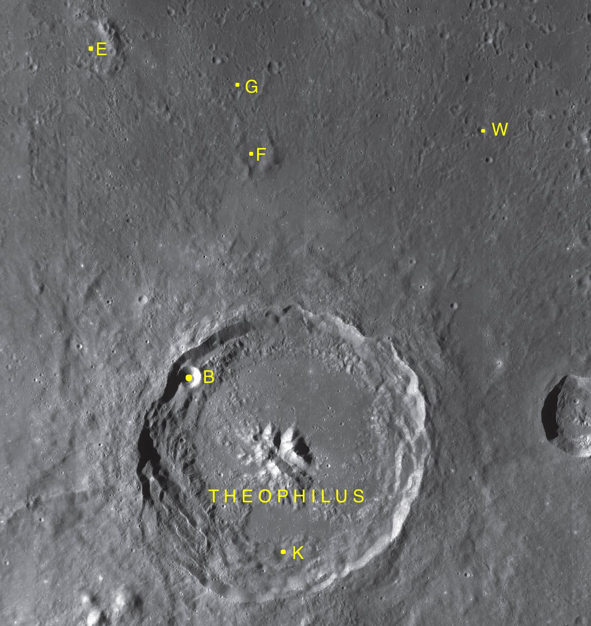 Part of the chart LAC-78 used for the presentation.